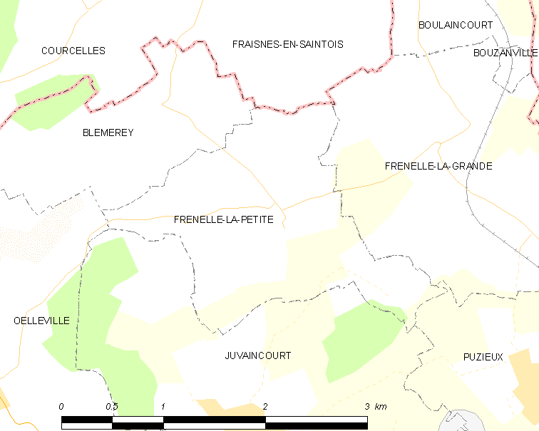 Map of French municipality Frenelle-la-Petite